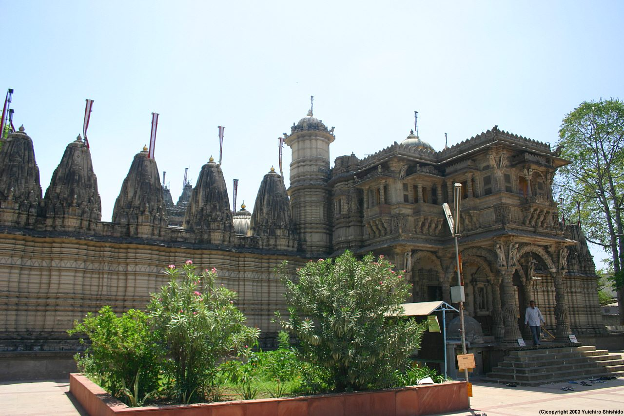 A temple of Jaina. Hatheesingh in Ahmadabad(or Ahmedabad).